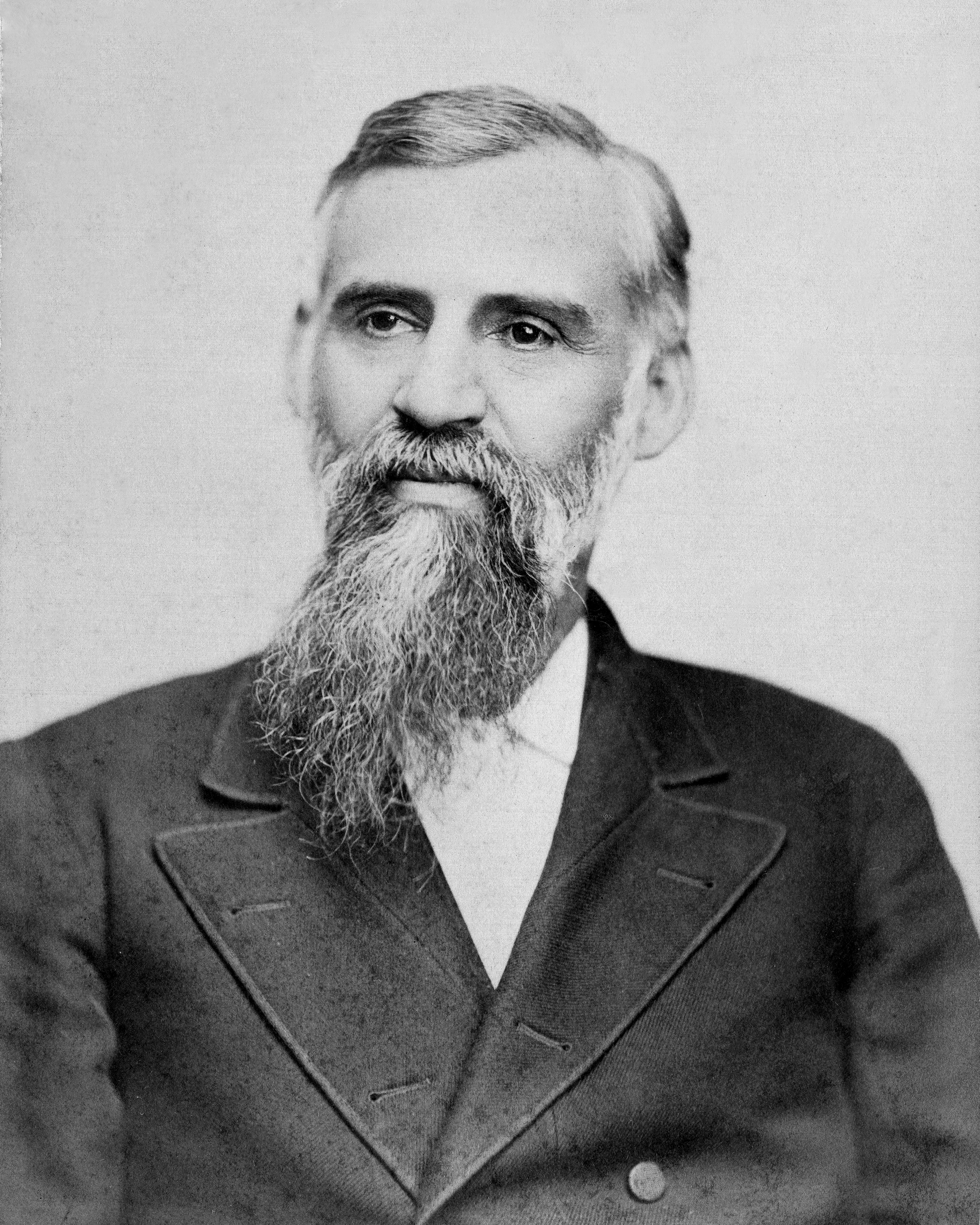 George Ide Butler, President of the General Conference of Seventh-day Adventists from 1871 to 1874 and from 1880 to 1888.